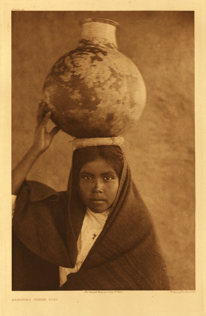 Qahatika water girl.